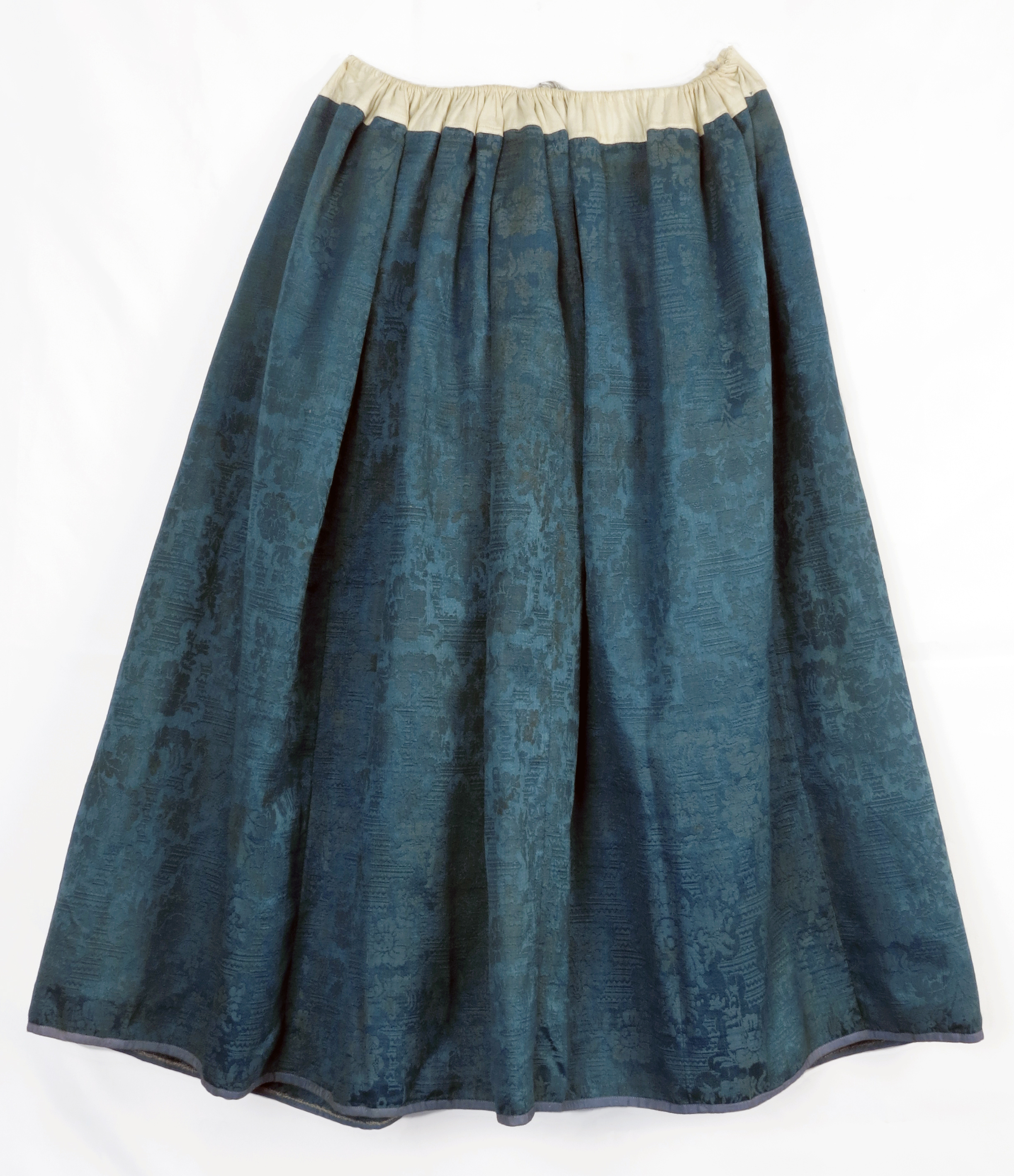 Skirt of blue damask (back). Locality: Żywiec. Ethnographic region: Żywiecki. The collection of The State Ethnographic Museum in Warsaw. PME 2887